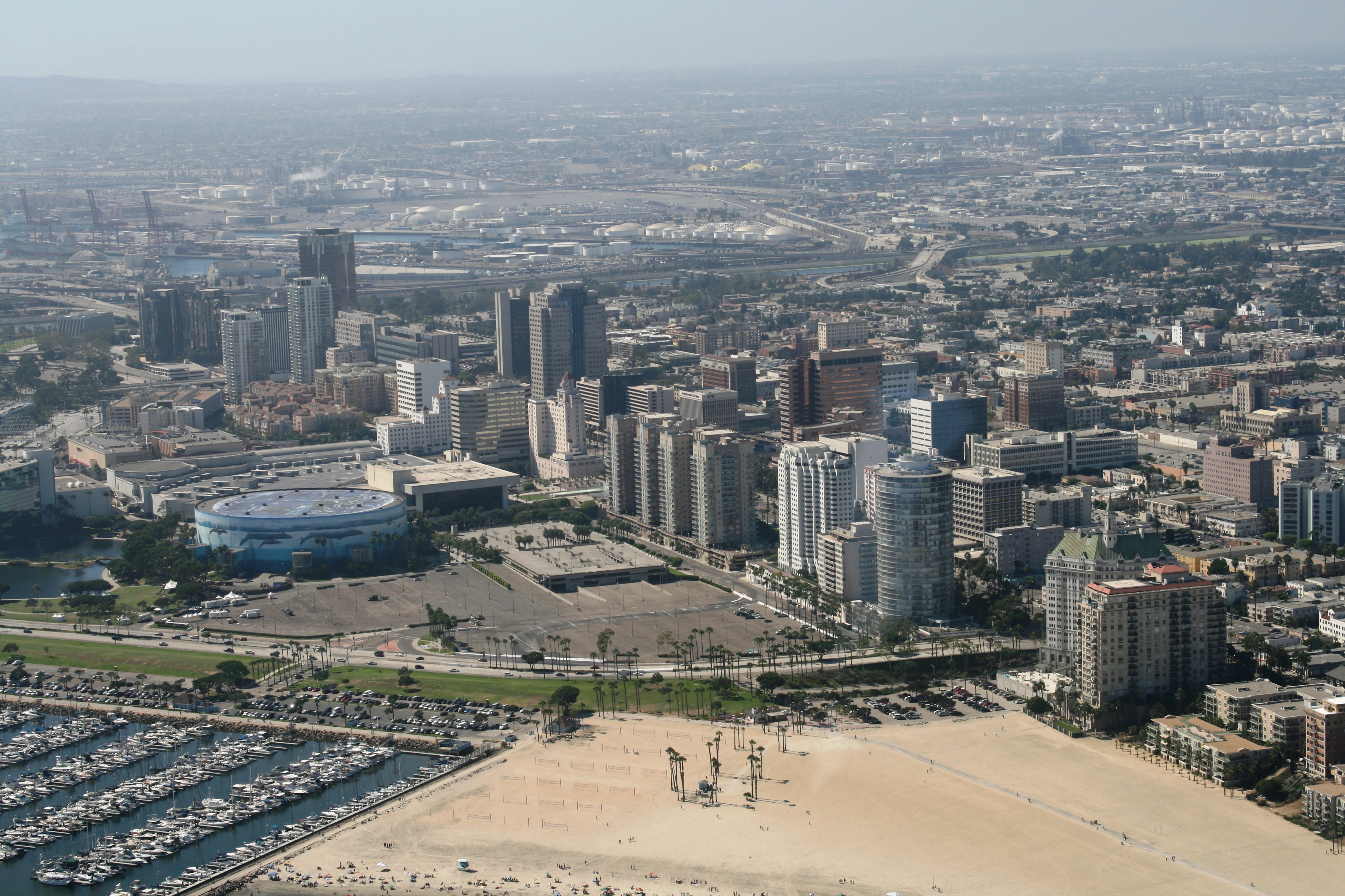 City of Long Beach